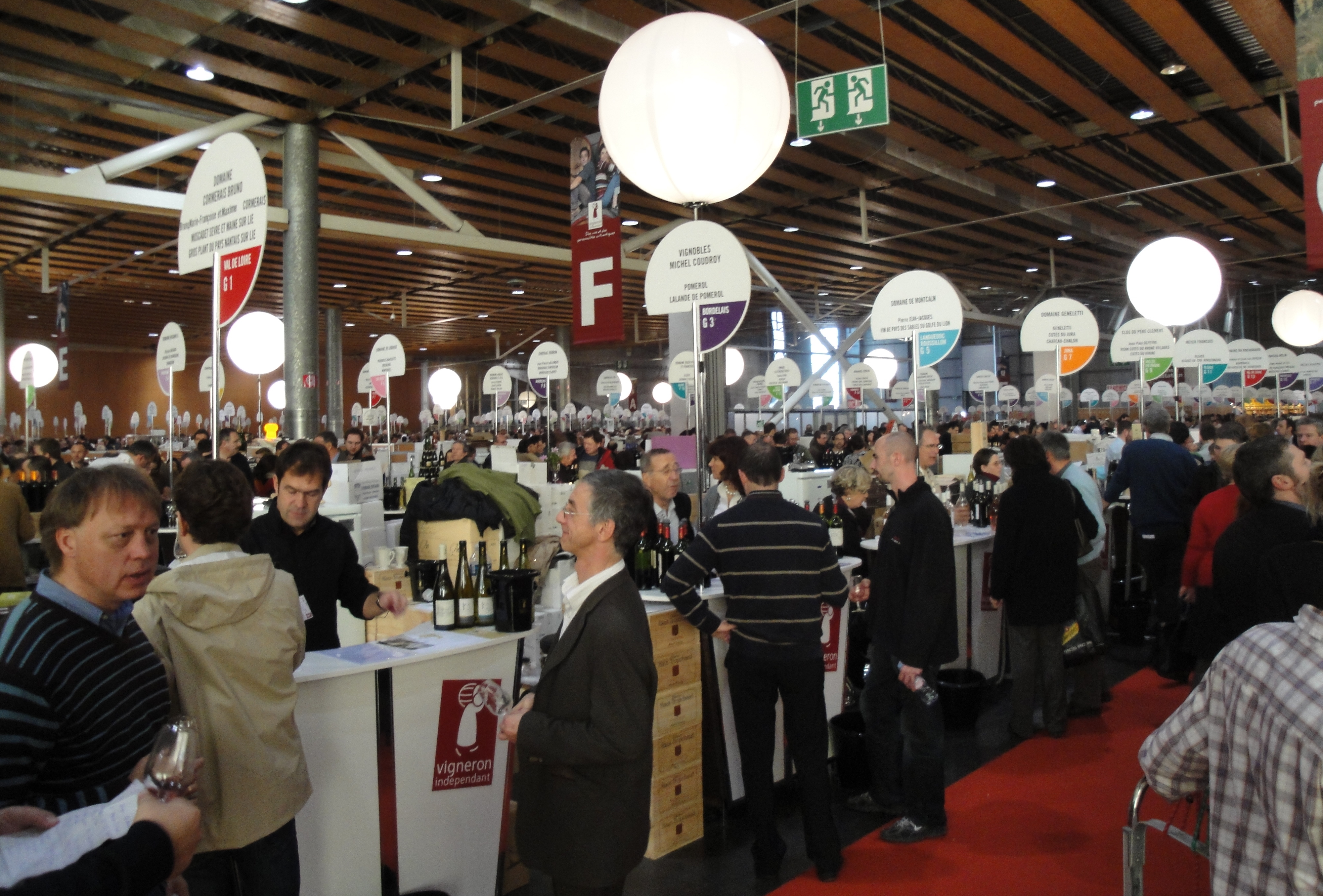 Wine fair in Lille (Grand Palais) arranged by Vigneron Indépendants, 2010